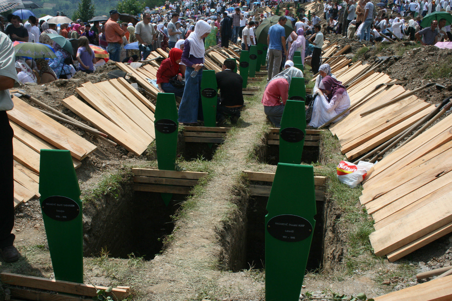 New graves for victims of the Srebrenica genocide in 1995. Burial took place on 11 July 2010.